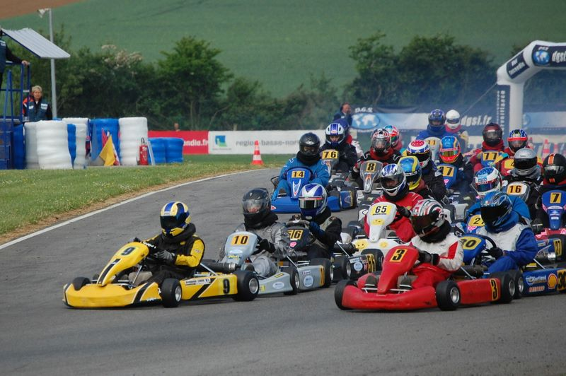 French Go-Kart category Formule FFSA, start at Essay, Orne, France